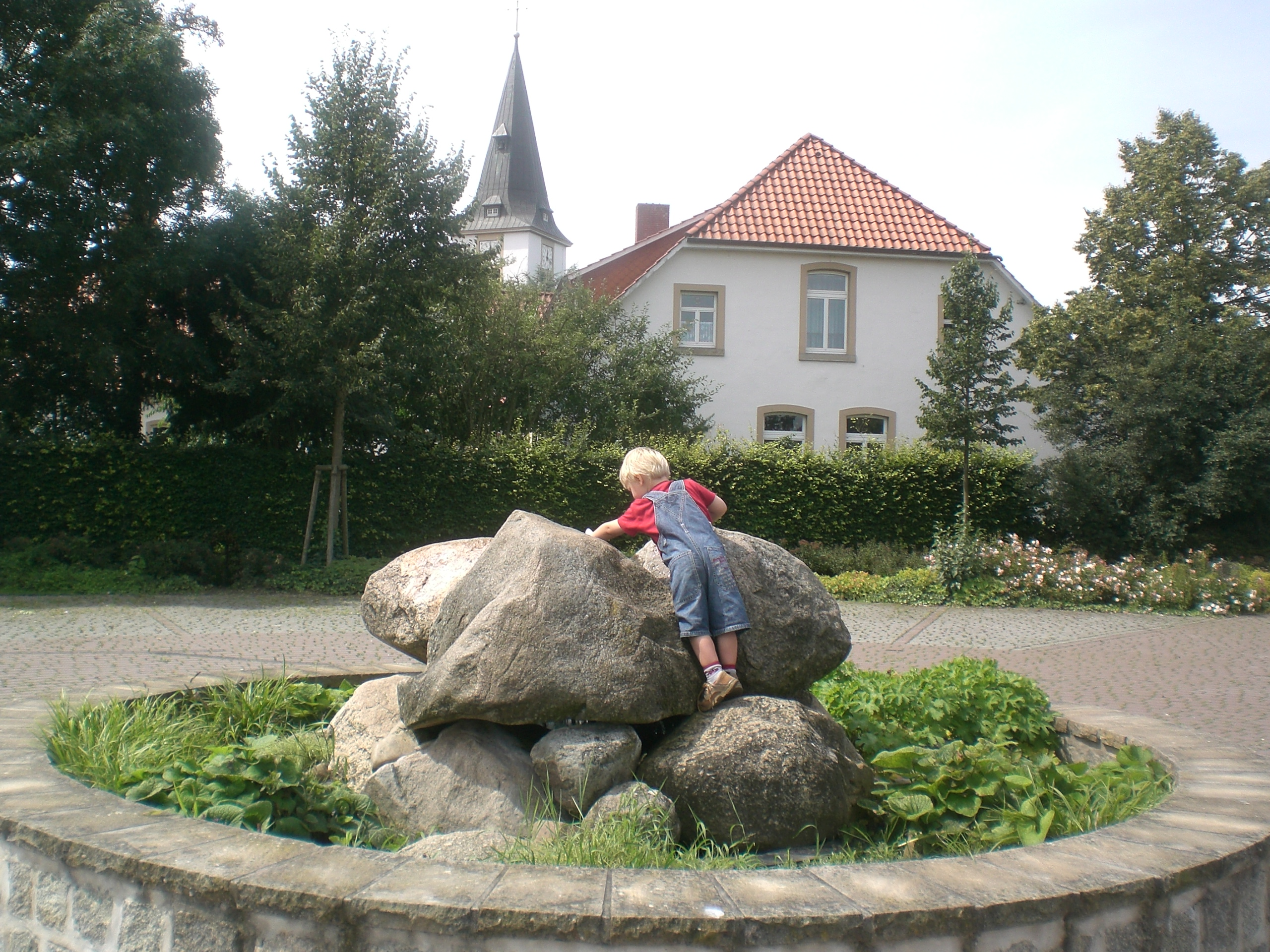 Monolithic fountain in Vörden, Neuenkirchen-Vörden, Lower Saxony, Germany